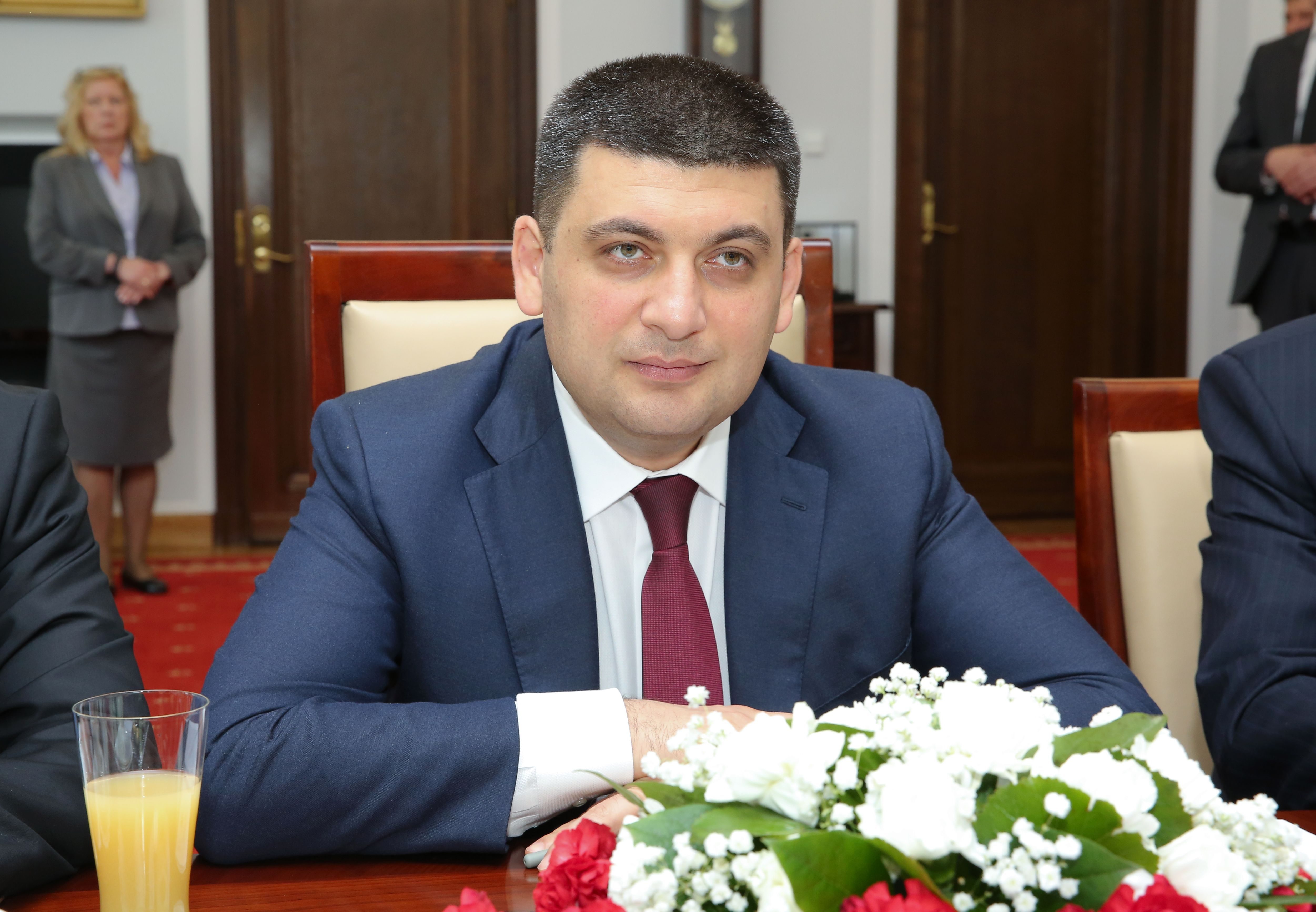 Speaker of the Verkhovna Rada of Ukraine Volodymyr Groysman in the Polish Senate